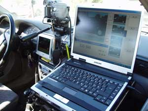 Auxiliary police